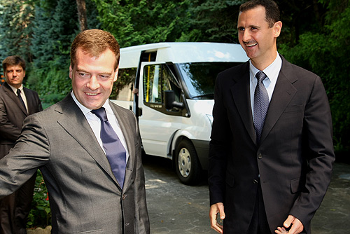 SOCHI. With President of Syria Bashar al-Assad.